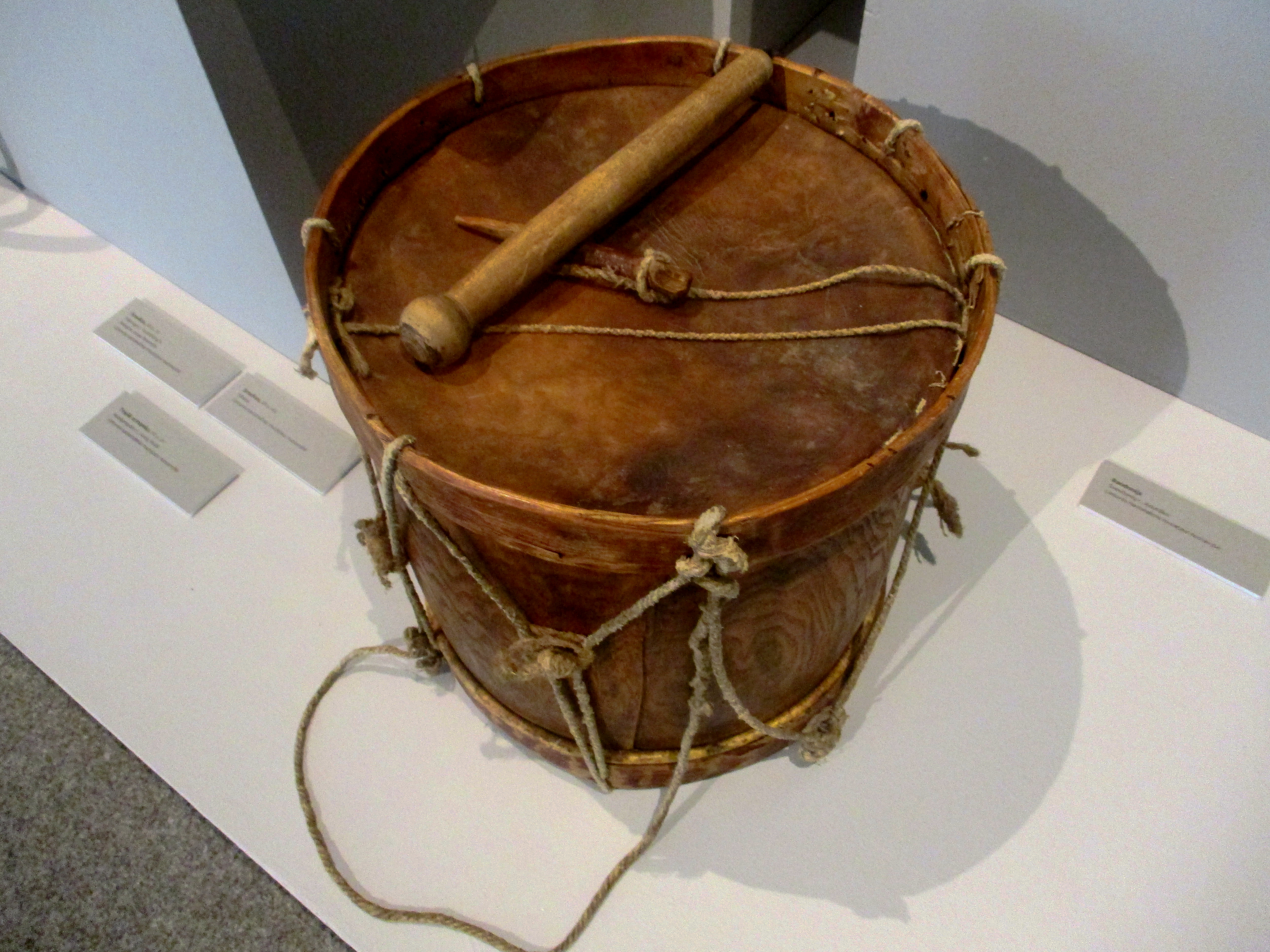 Drums, beginning of 20th century. Panevėžys District. Property of Panevėžys Local Lore Museum.